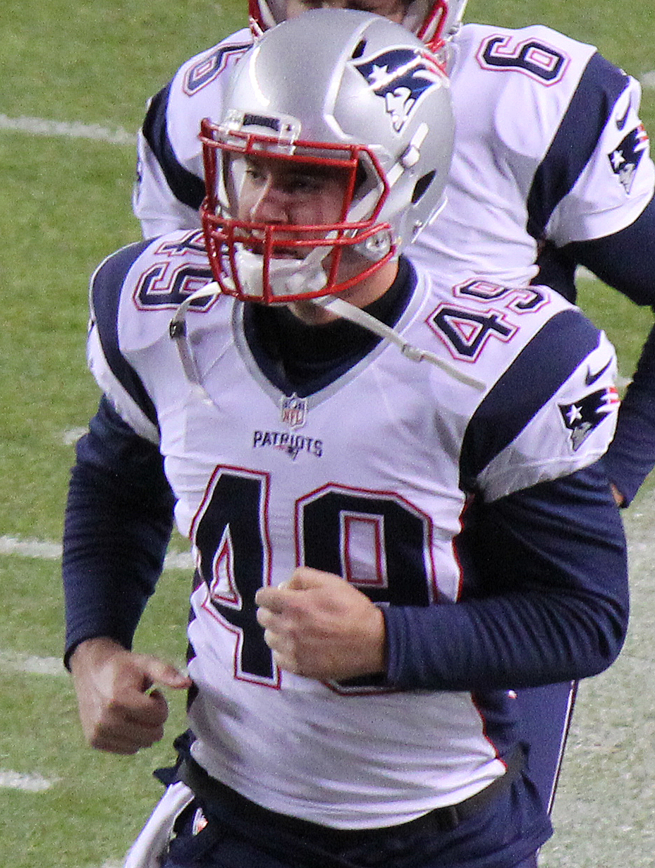 Joe Cardona, a player on the National Football League.